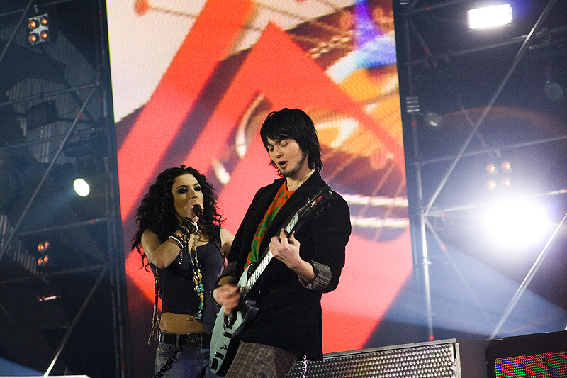 Unformal - Looper and Dilara